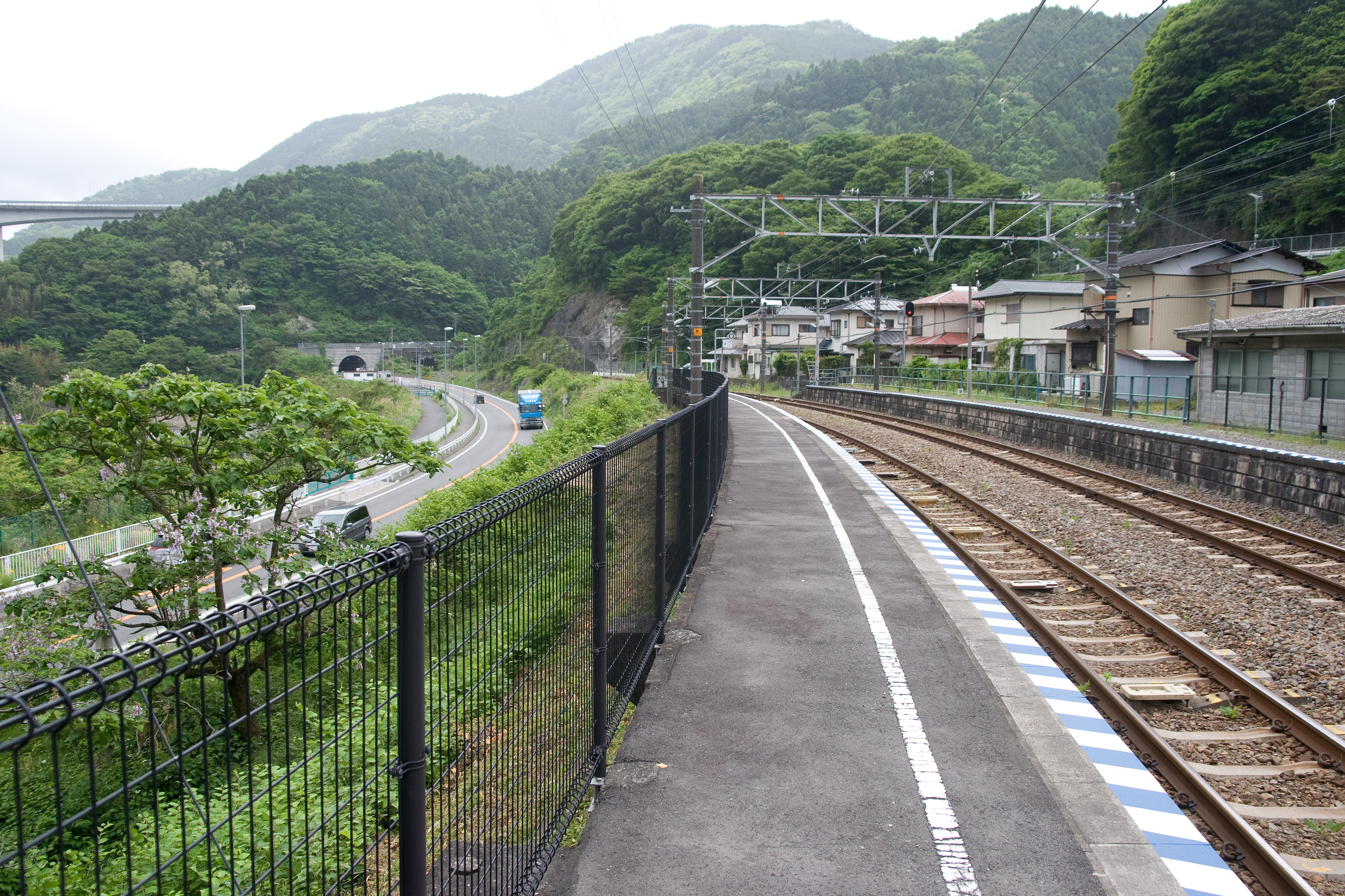 Yaga Station in Yamakita town, Kanagawa Prefecture, Japan.